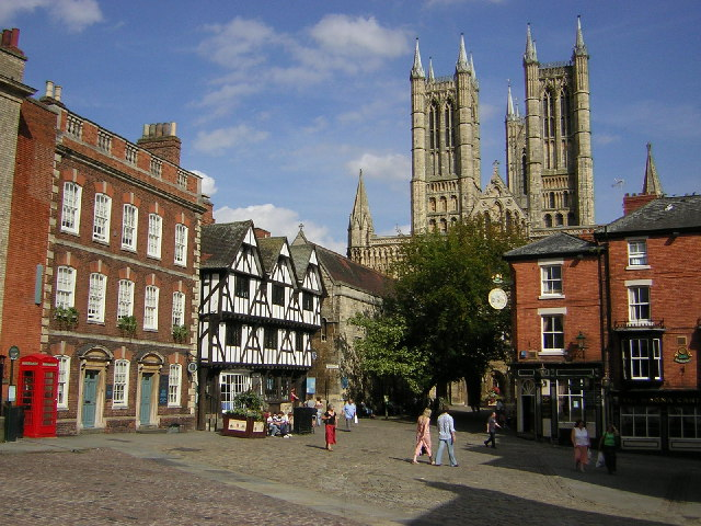 Castle Square, Lincoln Castle Square, Lincoln looking east. From left to right ... Georgian houses, Leigh-Pemberton House, church of St.Mary Magdalen, Cathedral, Magna Carta public house.